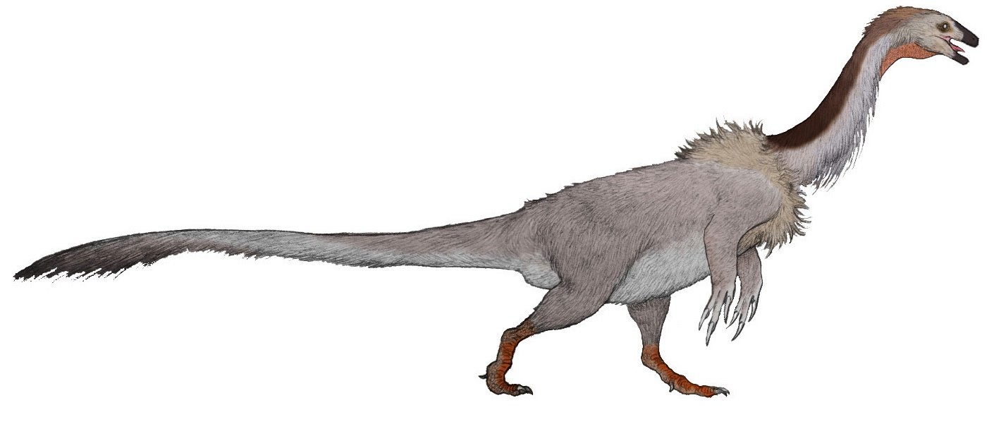 Falcarius restoration